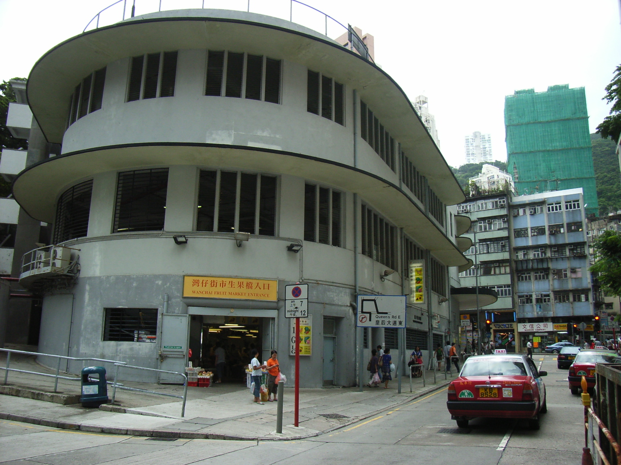 Wan Chai Road, Hong Kong Created by Jam Mei SUM